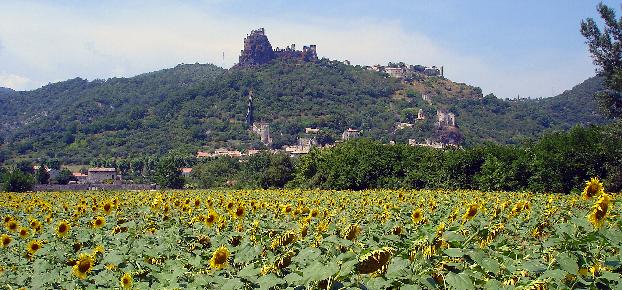 Château de Rochemaure, Ardèche, France